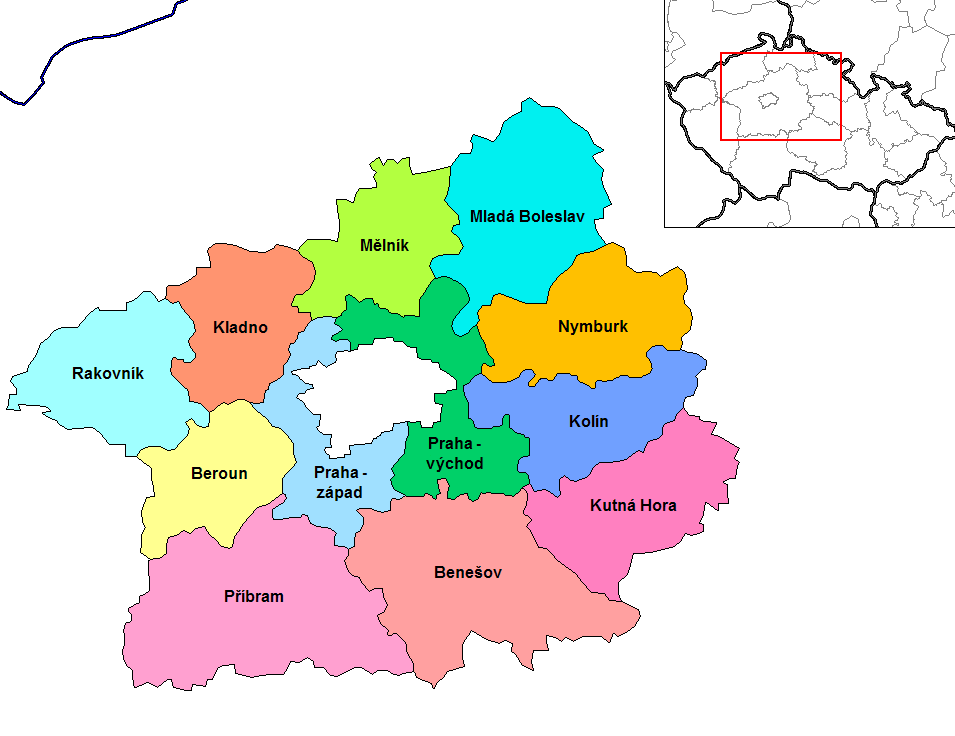 Map of the districts of Central Bohemia region of the Czech Republic. Created by Rarelibra 15:07, 2 January 2007 (UTC) for public domain use, using MapInfo Professional v8.5 and various mapping resources.